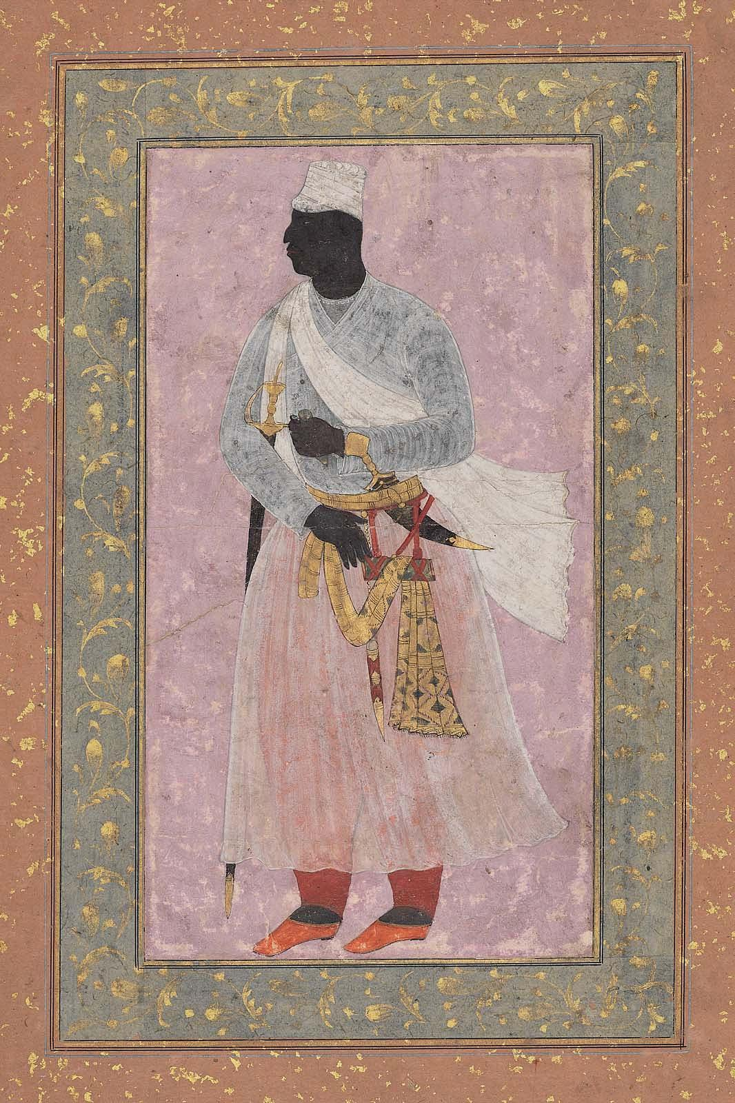 Fath Khan, son of Malik Ambar, Ahmadnagar, 1610-20, Boston MFA.